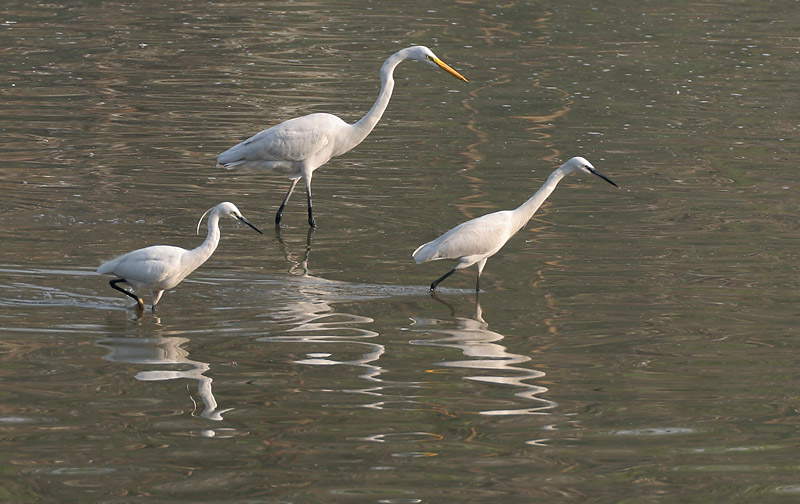 Little Egrets Egretta garzetta and Eastern Great Egret Ardea modesta in Kolkata, West Bengal, India.